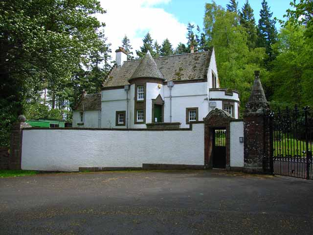 Kinpurnie Castle Lodge. A fine gate lodge in Scottish Baronial style. The Castle itself is occupied by Sir James Cayzer, head of a shipping, investment and property empire. A Union Castle ship named the Kinpurnie Castle was built in the 1960s.